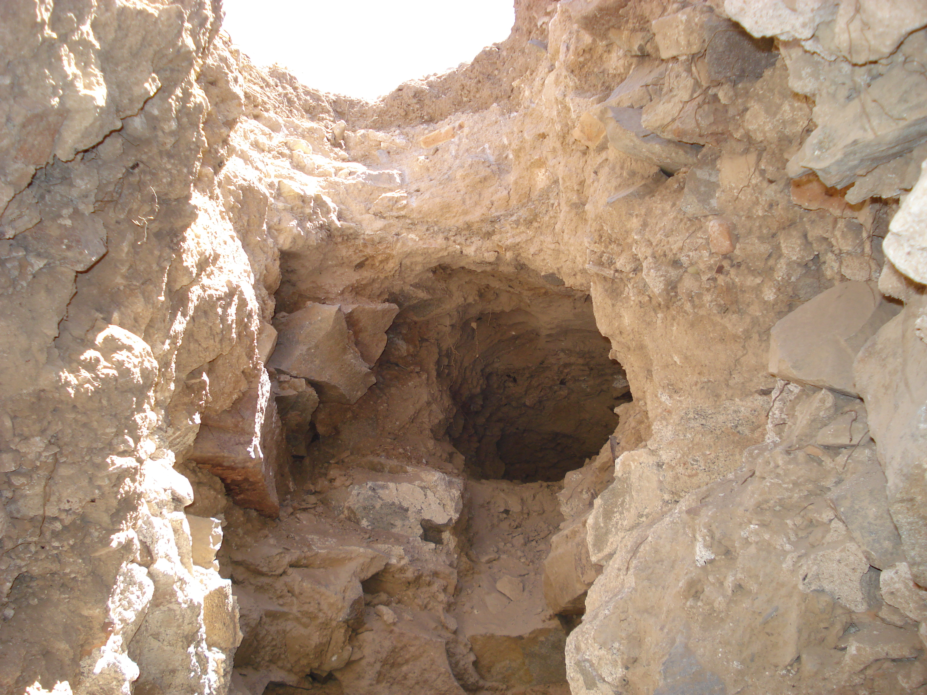 Destruction of yazdgerd 3Th last castle in Zibad, Gonabad County, Iran, by thieves